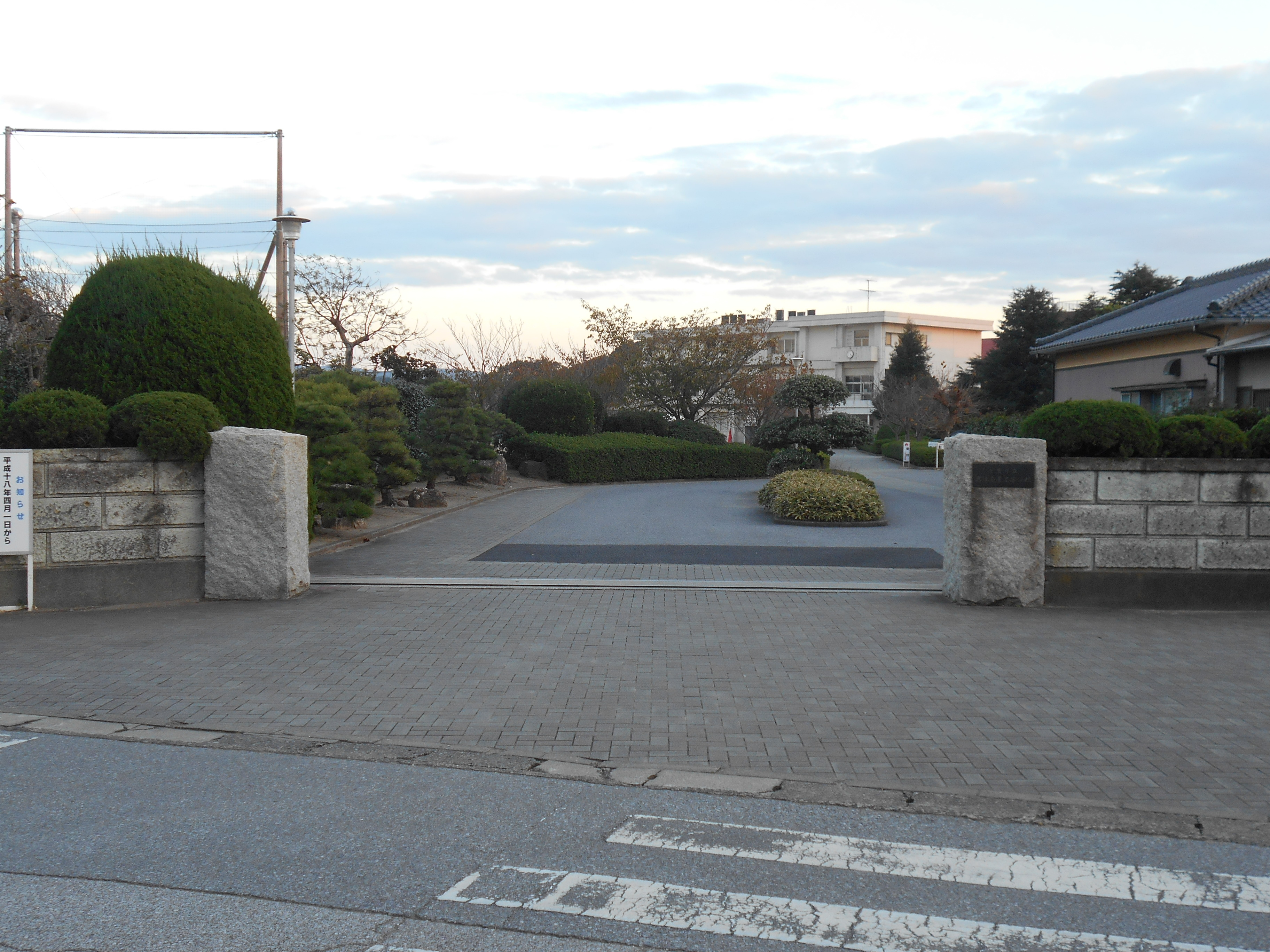 Chiba Prefectual Kimitsu Commercial High School